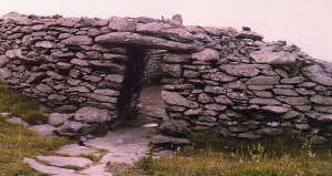 Dunbeg promotory Fort, Dingle peninsula, co. Kerry, Ireland in 1978.